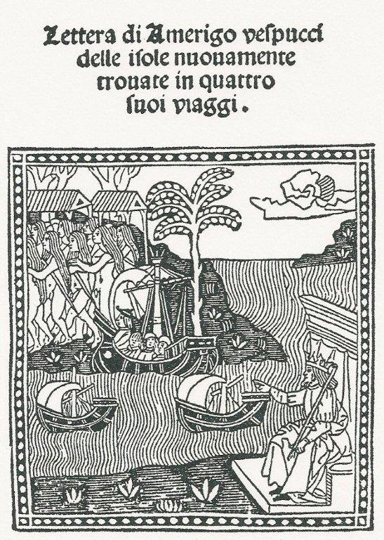 Title page of first known (1505) edition of the Letter to Soderini by Amerigo Vespucci. This edition does not have dedication to Piero Soderini, but only has a woodcut and entitled "Lettera di Amerigo Vespucci delle isole nuovament trovate in quattro suoi viaggi". It was written by Vespucci in 1504, and published c.1505 by Pietro Pacini in Florence. This is a photographic facsimile reproduction published in 1893 First Four Voyages of Amerigo Vespucci, London: B. Quaritch online